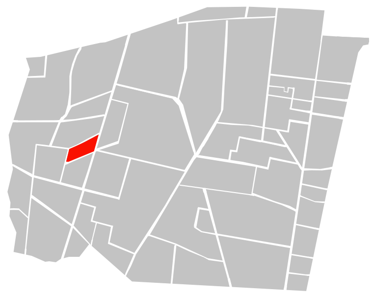 Map of Delegación Benito Juárez in Mexico City, with Colonia Noche Buena highlighted in red